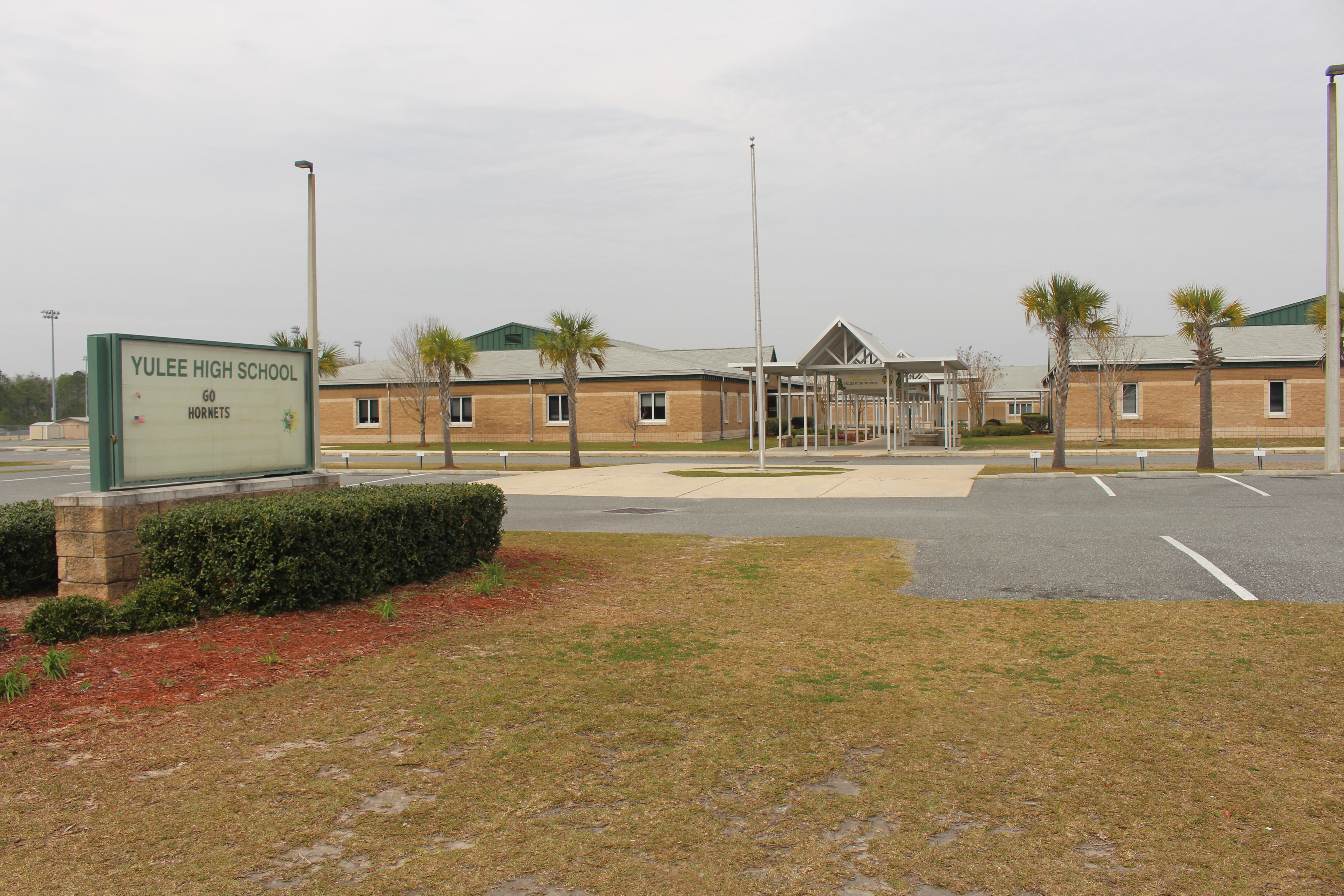 Yulee High School, 85375 Mine Road, Yulee, Nassau County, Florida